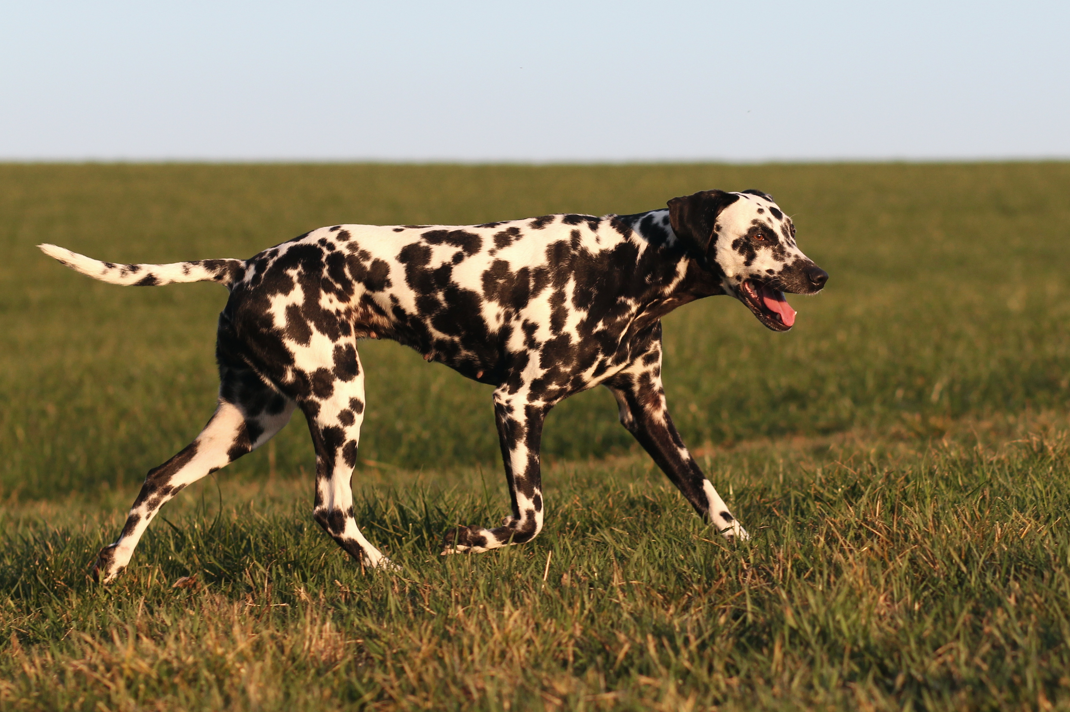 März 2014 EF 85mm 1:1.8 USM Creative Commons Licence BY 2.0 Quellenangabe / Credit: Photo by Maja Dumat - CC BY 2.0